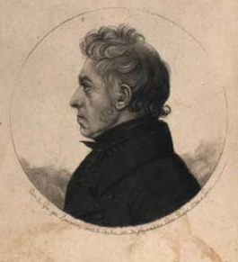 Physionotrace of Frederik Christian Raben, Count of Christiansholm, owner of Aalholm, Denmark 1791-1838.